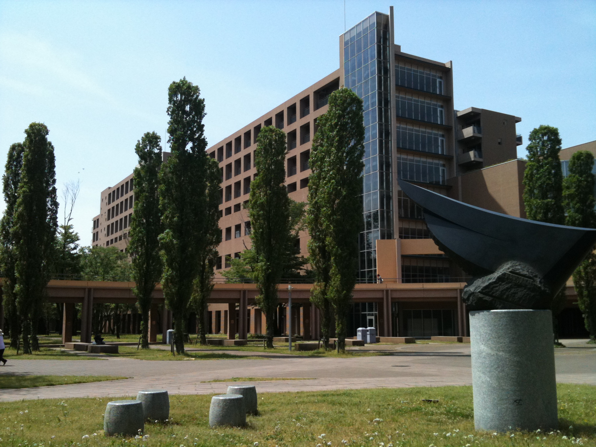 This is one of the most famous building in TUFS, and most of the functions are concentrated in the building. This is the building for lectures and studies.